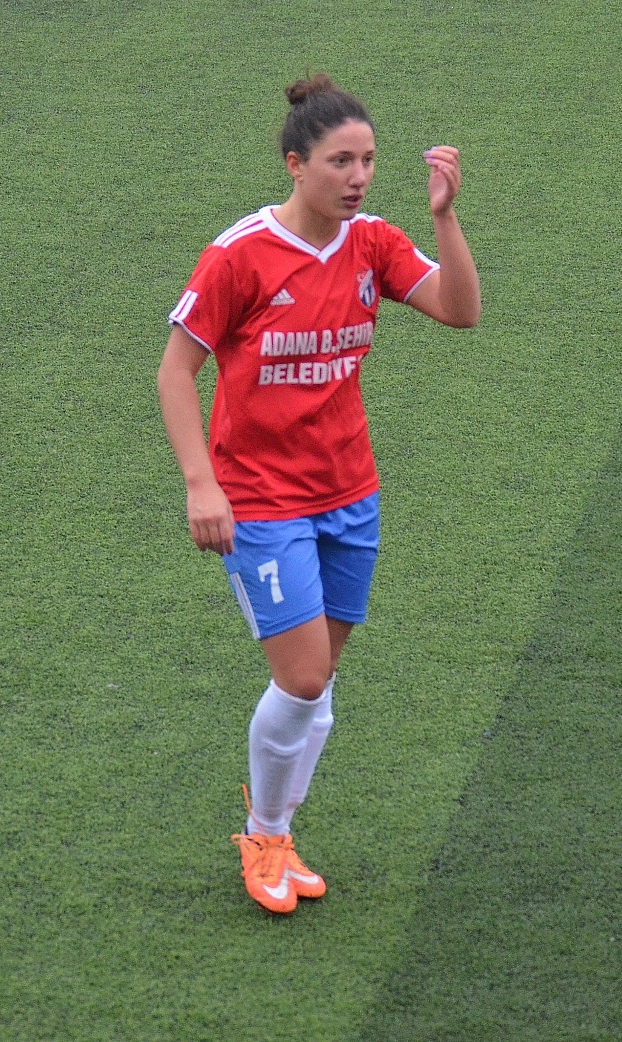 Nino Pasikashvili for Adana İdmanyurduspor in the 2014-15 season